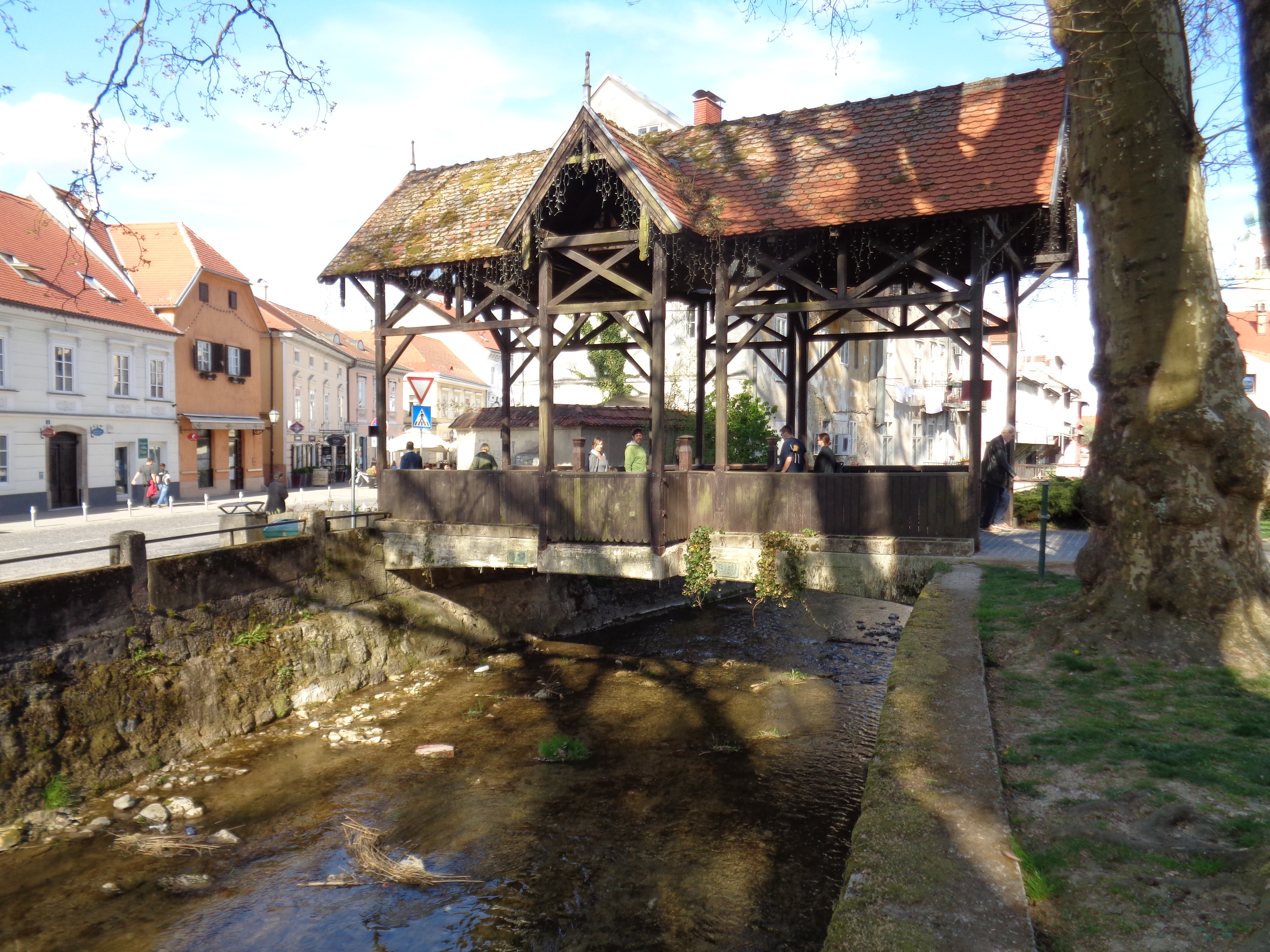 Old bridge over the Gradna river in Samobor, Zagreb County, Croatia